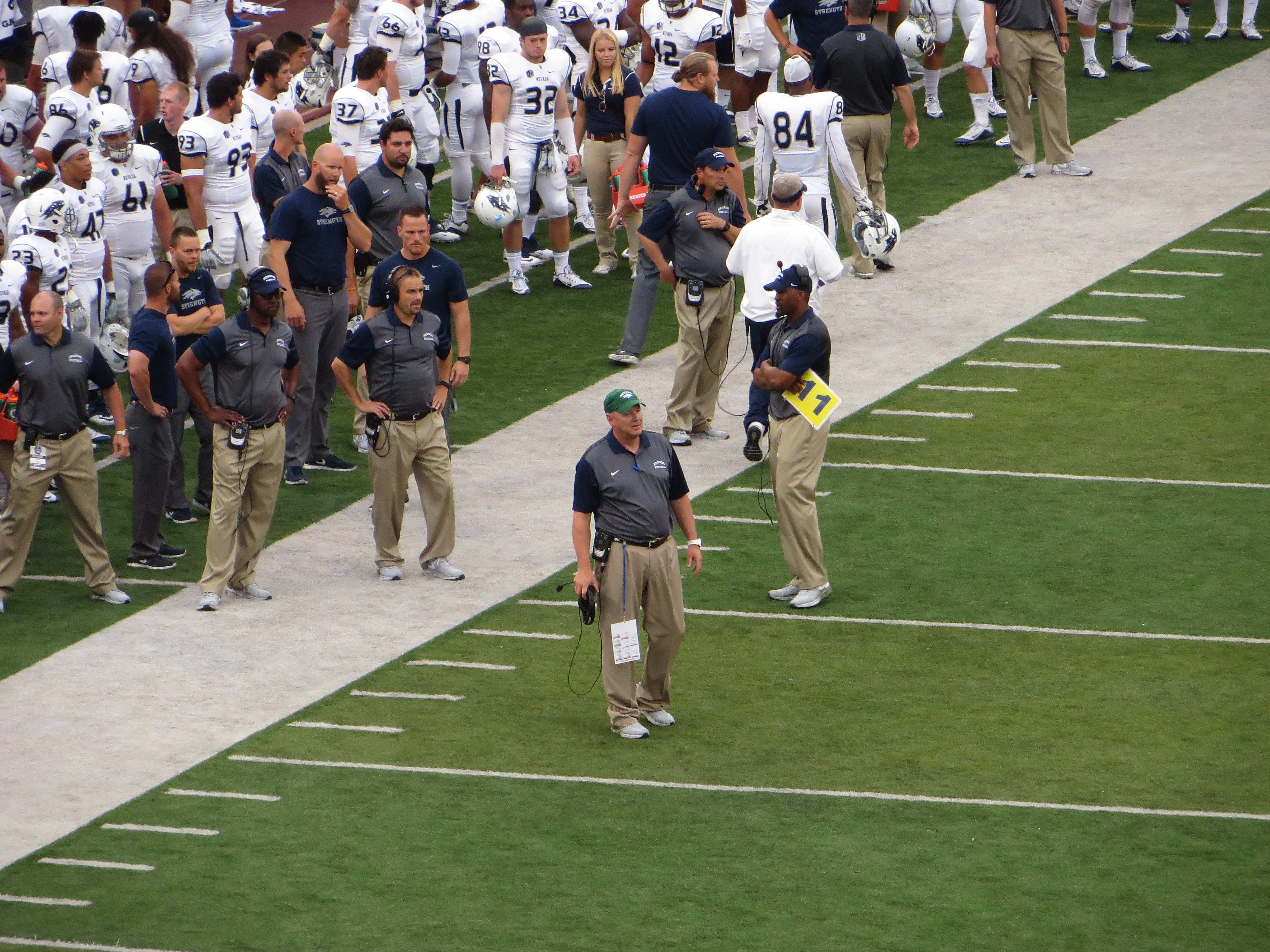 Brian Stewart Polian (born December 22, 1974) is the head coach of the Nevada Wolf Pack football team. He is the son of former NFL executive Bill Polian.